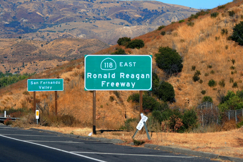 California State Route 118—Ronald Reagan Freeway at Santa Susana Pass in the Simi Hills, entering the western San Fernando Valley east of Simi Valley, Southern California. The Santa Susana Mountains rise in the background.